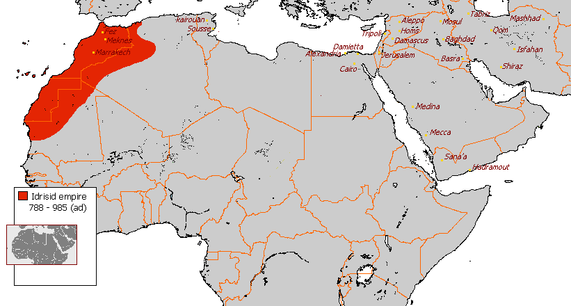 Map of the Idrisid dynasty (788 - 985 CE).